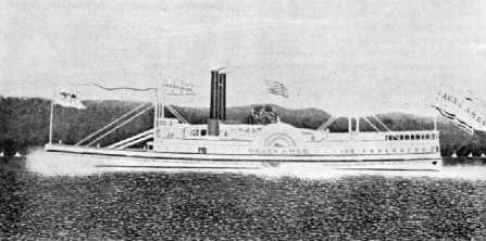 The railroad car ferry Oakes Ames. It was later renamed the Champlain II, and shipwrecked on Lake Champlain.[1]